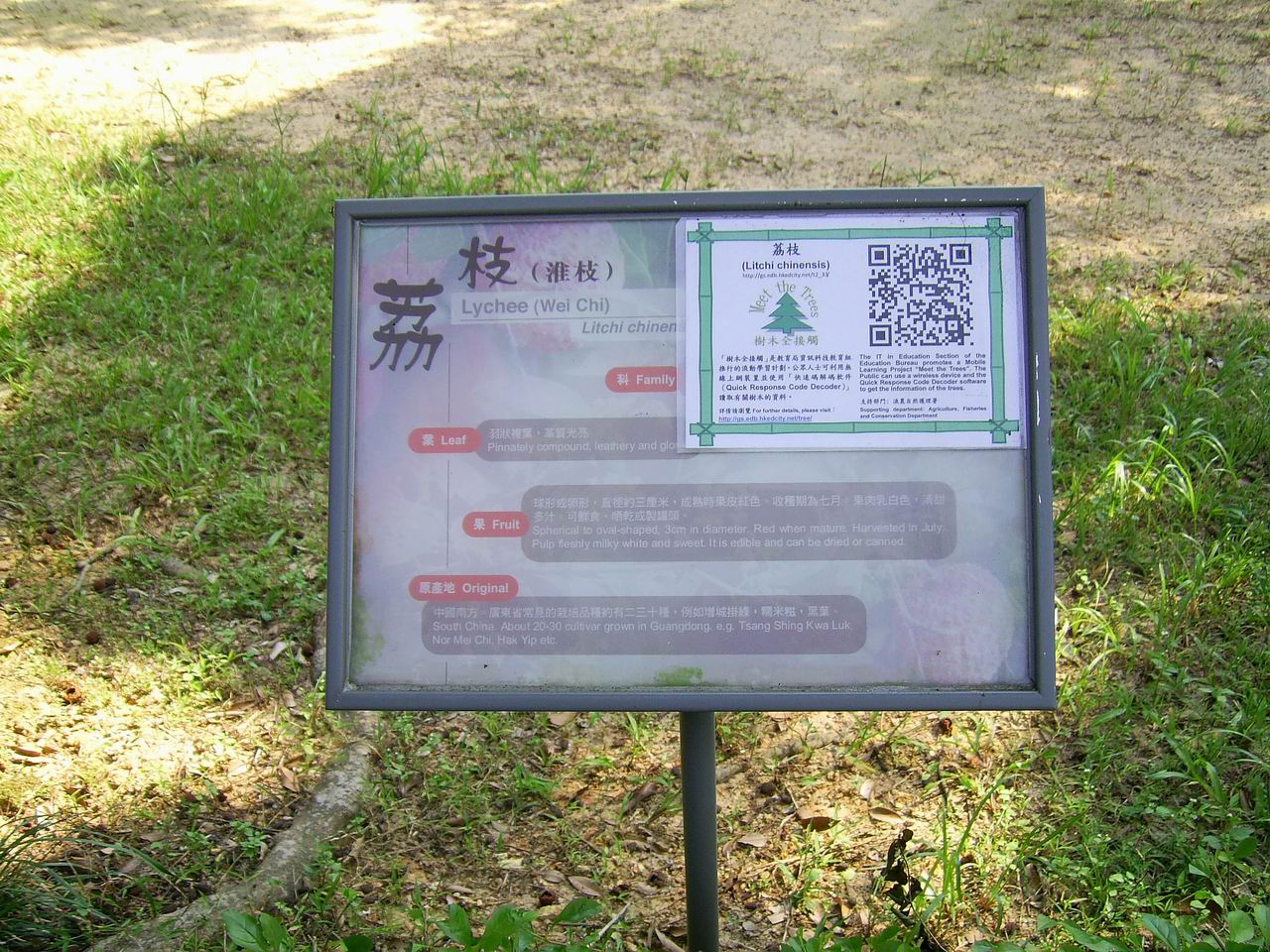 中文（香港）: 獅子會自然教育中心附有快速碼荔枝樹介紹牌 The QR code content is "